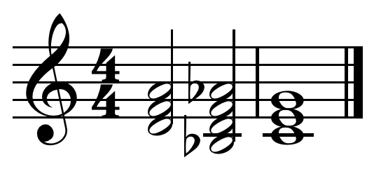 Backdoor progression in C.